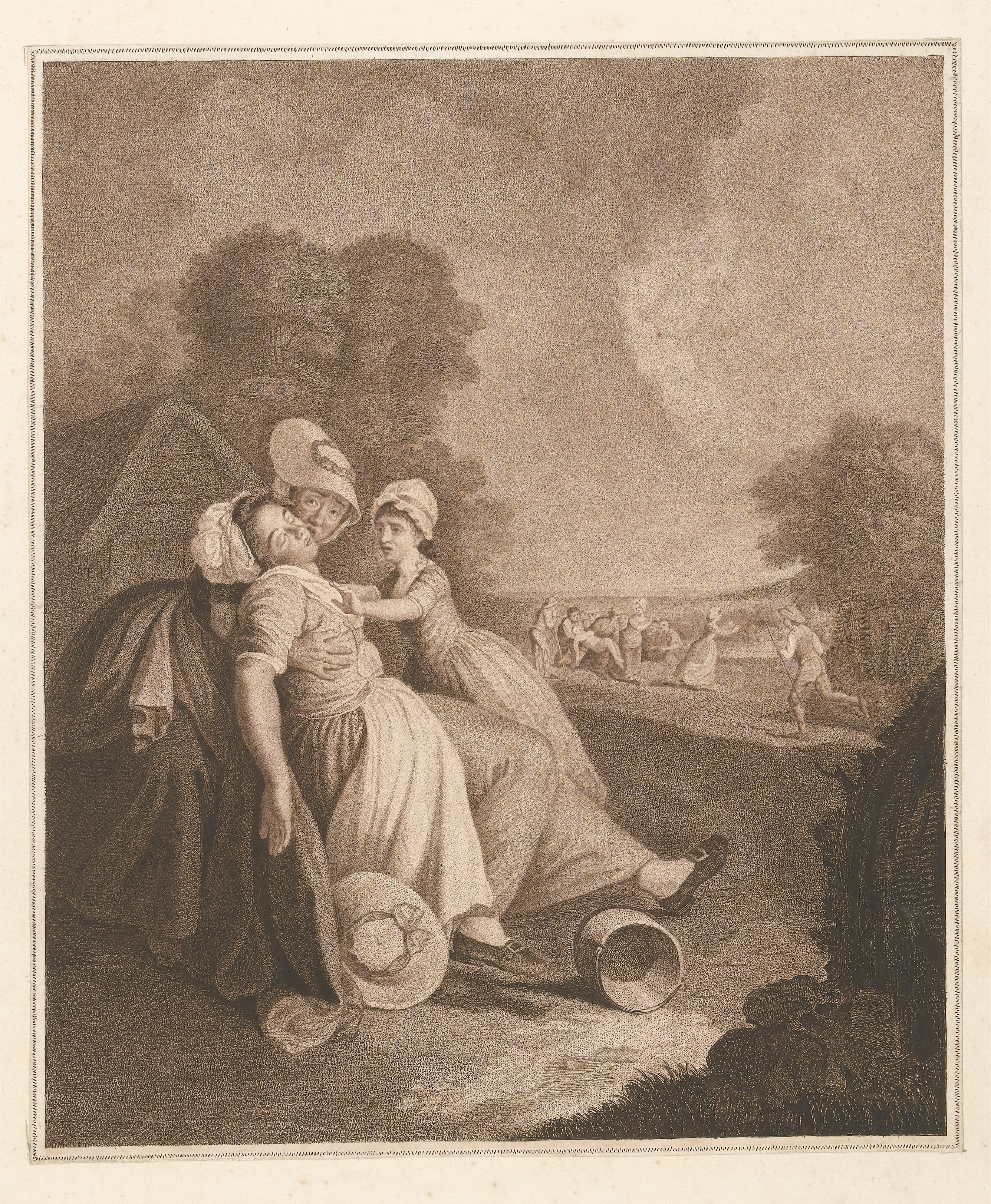 A girl fainting and collapsing into the arms of a woman, in the background is a similar scene of a fainting man. Wellcome Images Keywords: William Sedgwick; Edward Penny